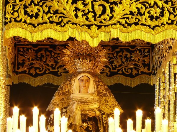 Ntra. Sra. de los Dolores en su Soledad.